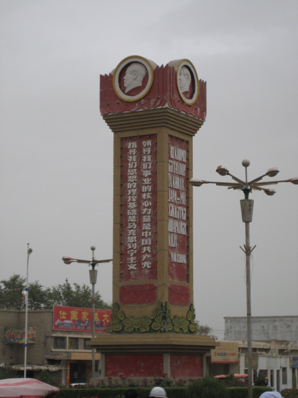 Obelisk in downtown Minfeng with a quotation from Mao Zedong in simplified Chinese characters and romanized Uyghur script (used in the People's Republic of China 1969-1983, later replaced by modified Arabic script). The picture was taken by me in August 2007, and to be included in the article on Minfeng.